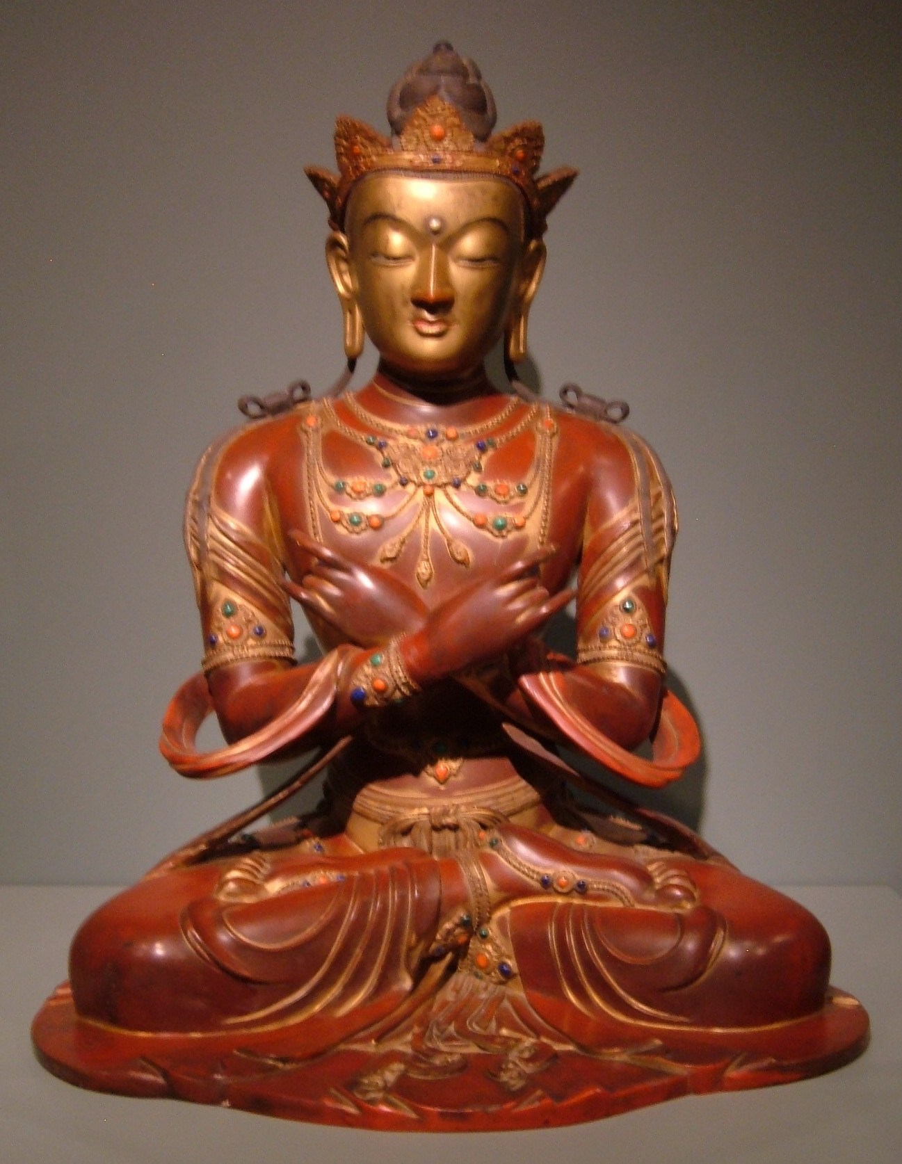 Sculpture of Vajradhara made of lacquered and gilt wood, inlaid with semiprecious stones (probably 1736-95), possibly from Chengde, Hebei province, China. On display at the Asian Art Museum in San Francisco, California. Object ID: B60S81